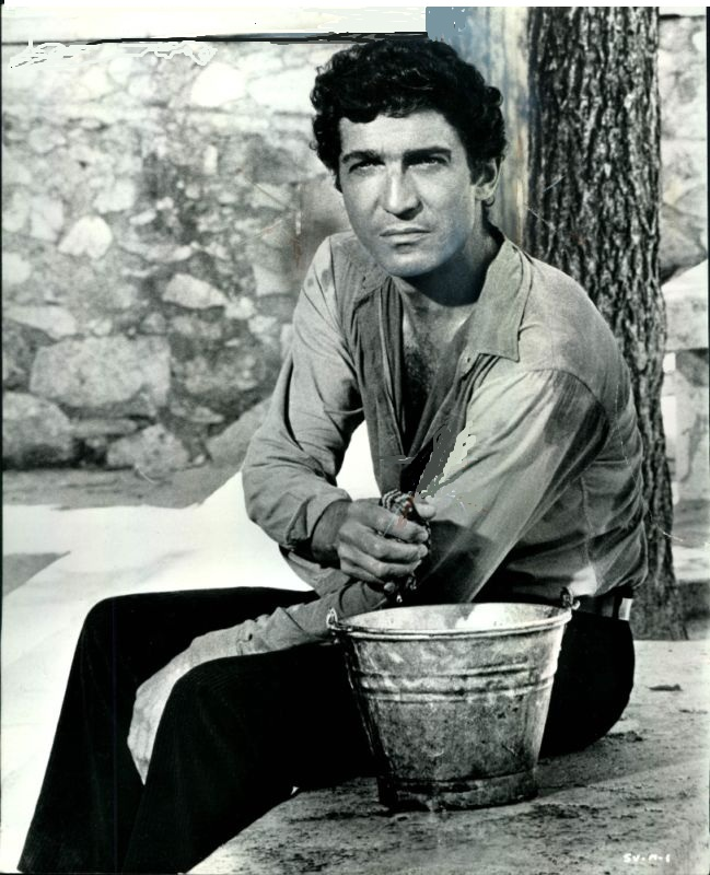 1969 Promotion photo of actor Sergio Franchi for the film The Secret of Santa Vittoria. Original property of Metro-Goldyn-Mayer.